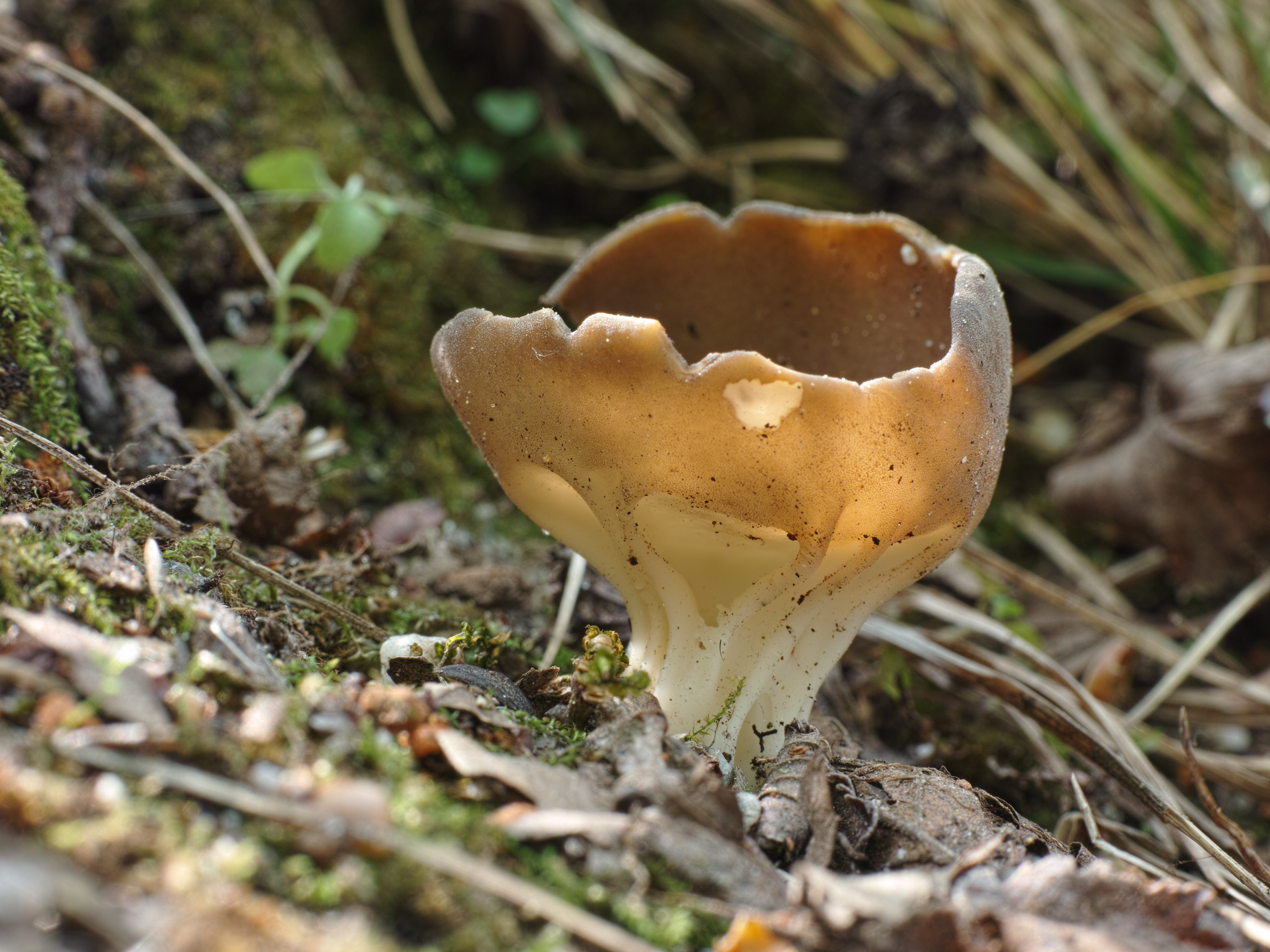 Helvella acetabulum, natural reserve Vrbenské rybníky, Czech republic